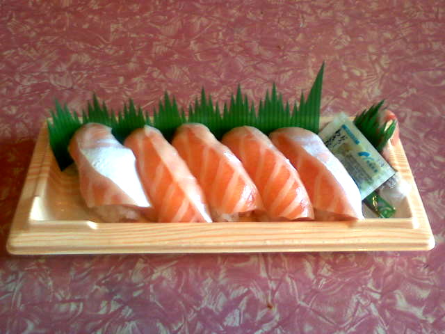 5 pieces of sushi: Salmon Abdomen